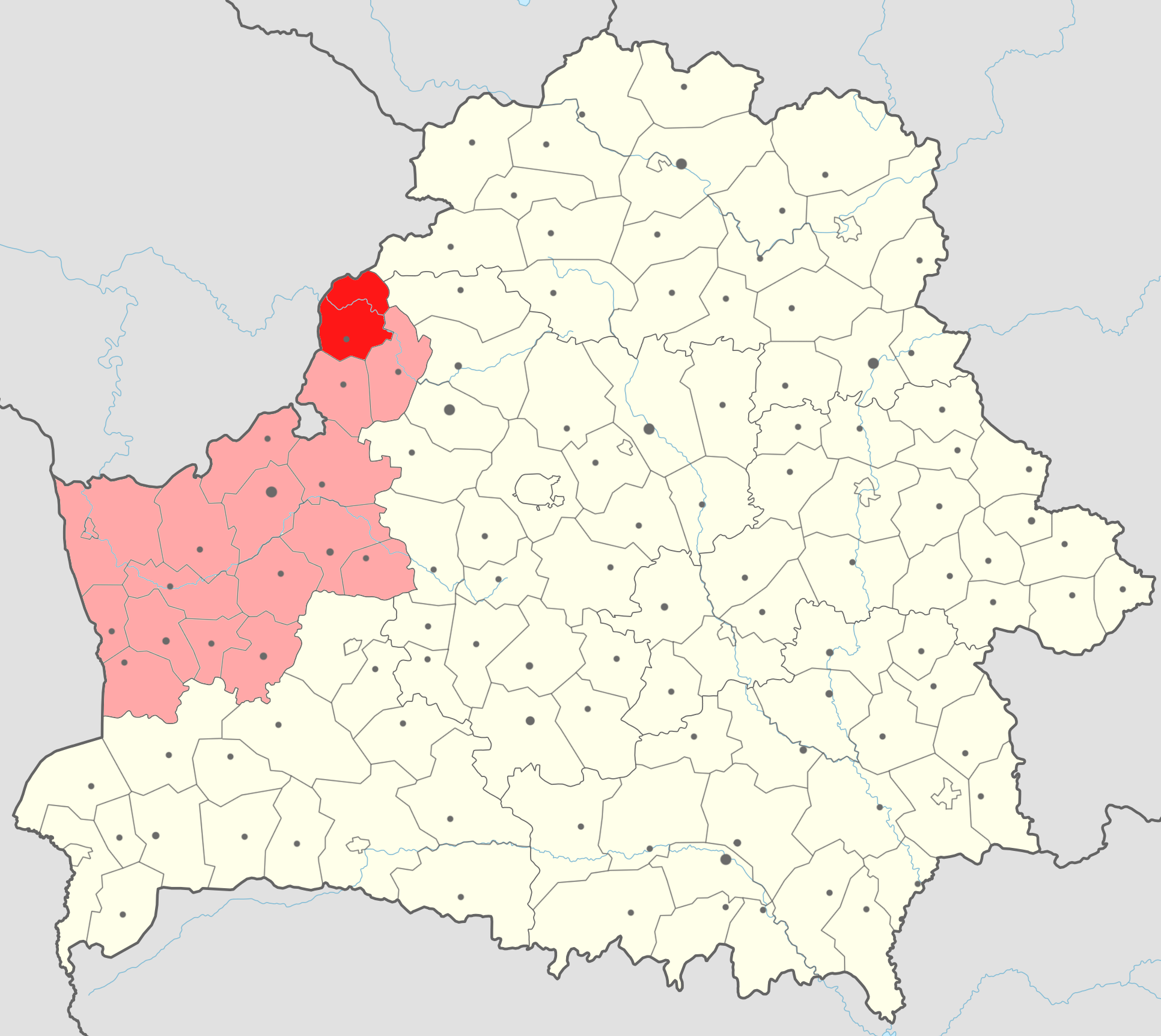 Map of Astraviecki rayon (in red) with Hrodna voblast' (in light red) on the map of Belarus.